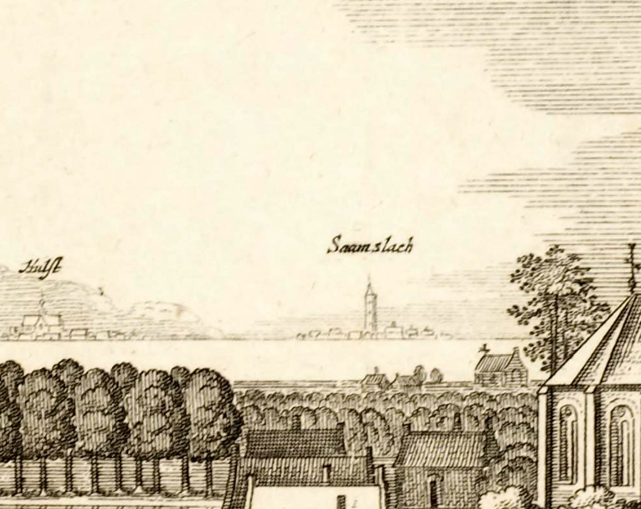 Engraving by Nicolaus Visscher? of Zaamslag about 1660.